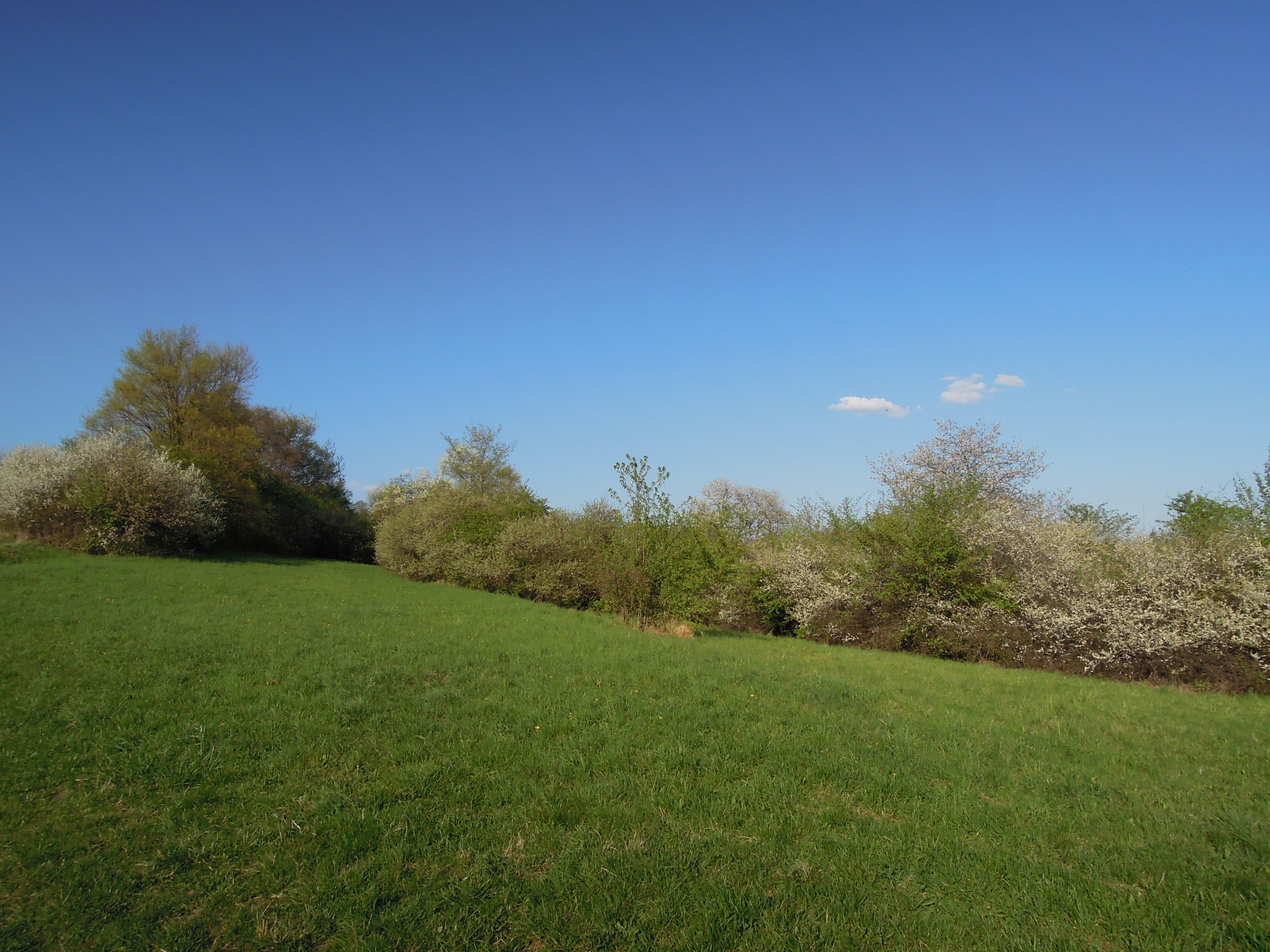 Vršky - Díly natural monument in Vsetín, Vsetín District, Zlín Region, Czech Republic